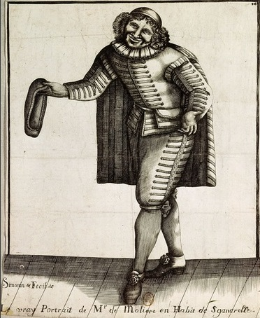 The French playwright Molière in the costume of Sganarelle in his 1660 play Sganarelle, ou Le Cocu imaginaire. See Howarth, William Driver (1982). Molière: A Playwright and His Audience, pp. 28 and Plate II a. Cambridge University Press